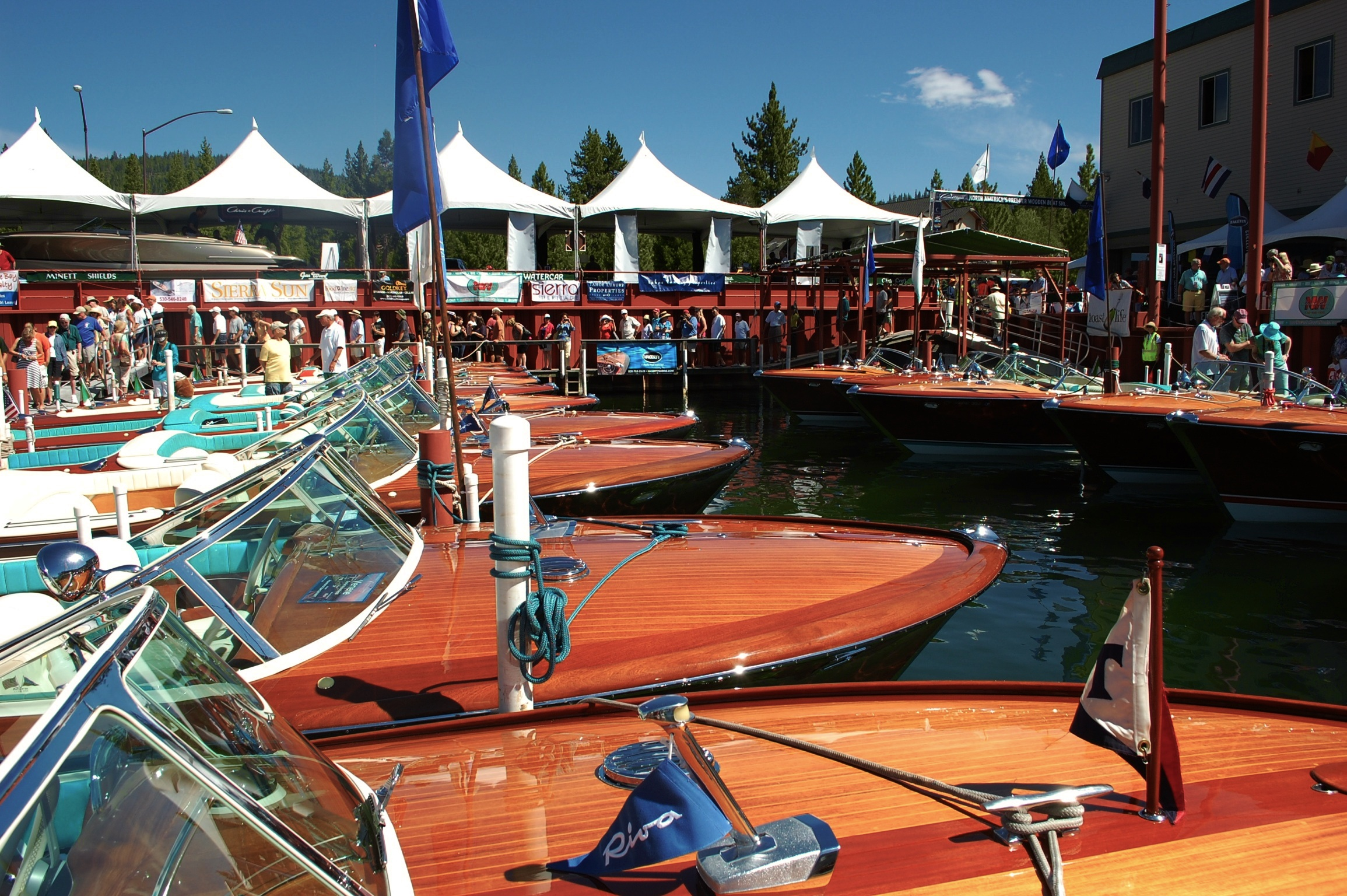 looking at the bows of several Riva Aquarama and Ariston